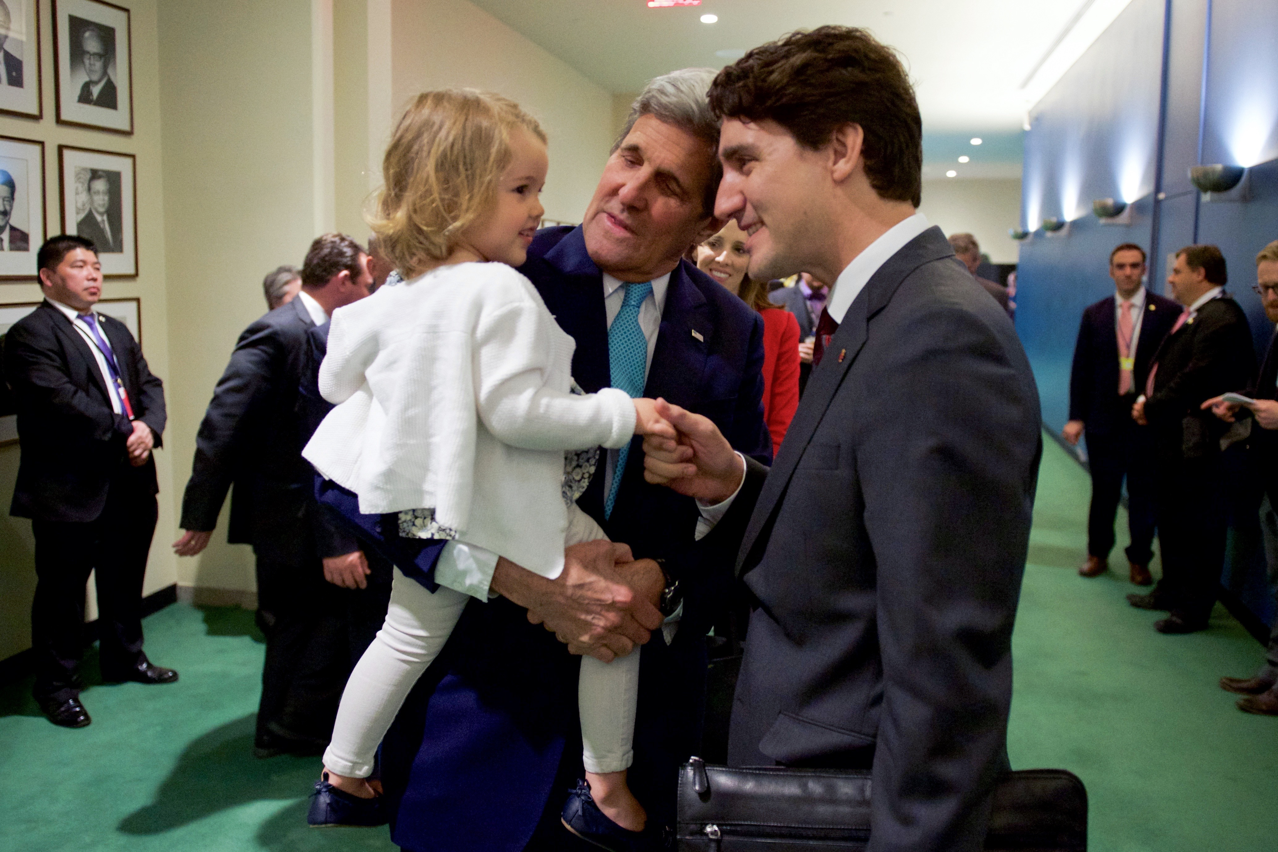 Canadian Prime Minister Justin Trudeau plays with the two-year-old granddaughter of U.S. Secretary of State John Kerry, Isabelle Dobbs-Higginson, before both officials signed the COP21 Climate Change Agreement on Earth Day, April 22, 2016, at the United Nations General Assembly Hall in New York, N.Y. [State Department photo/ Public Domain]